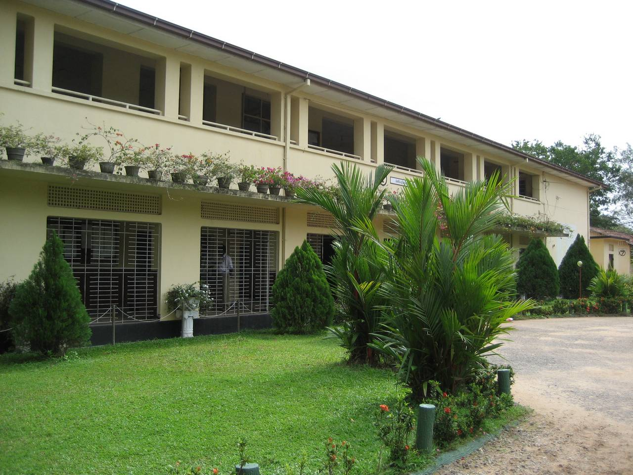 Bandaranayake College - Gampaha